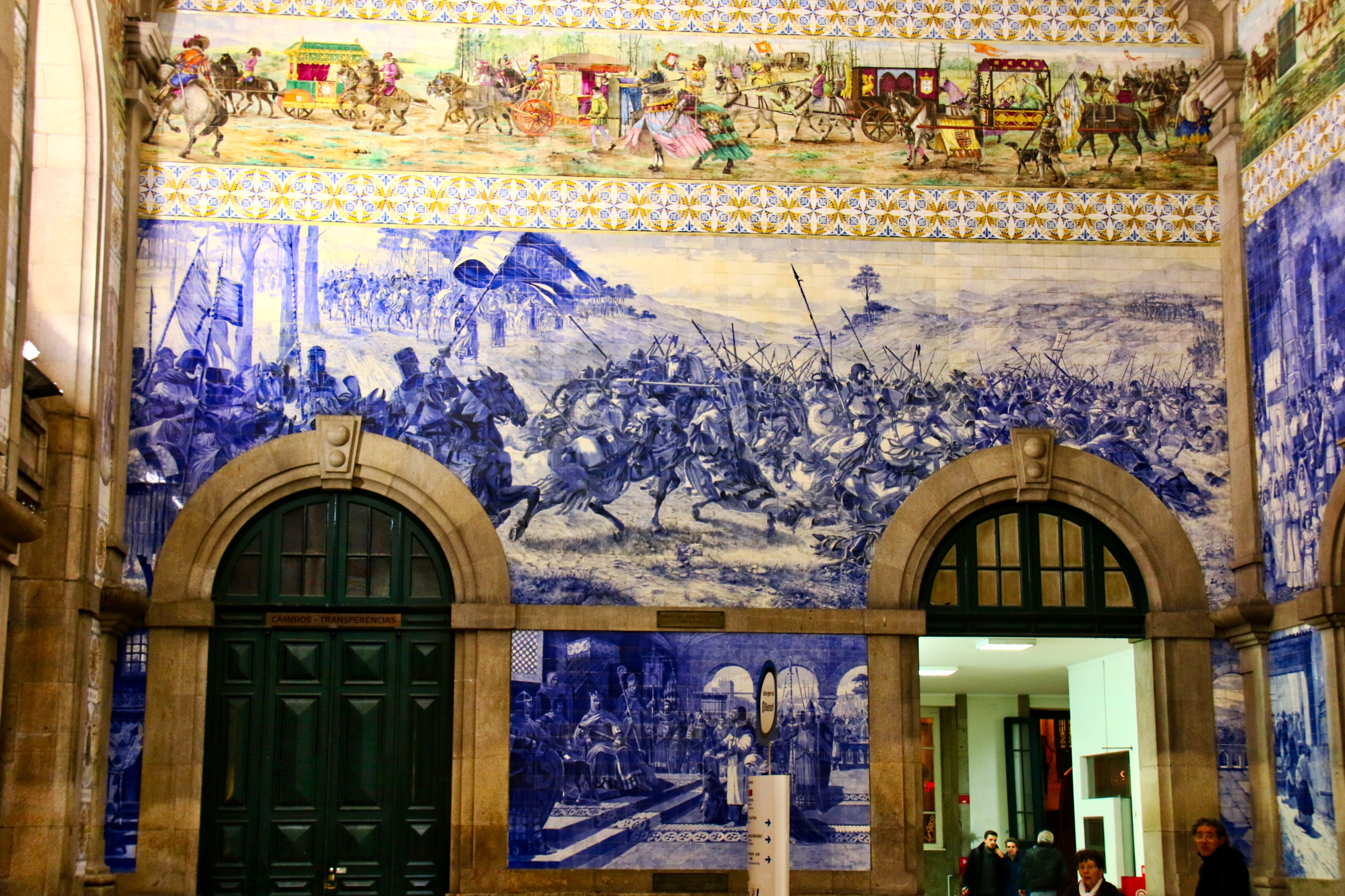 Tile pictures (azulejos) in the entrance hall of Porto's São Bento train station; Porto, Portugal